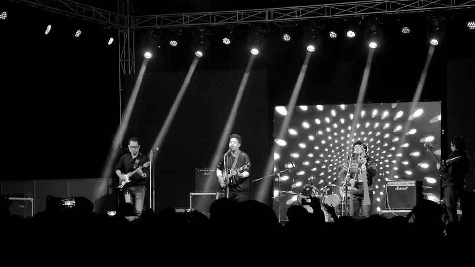 ITTH